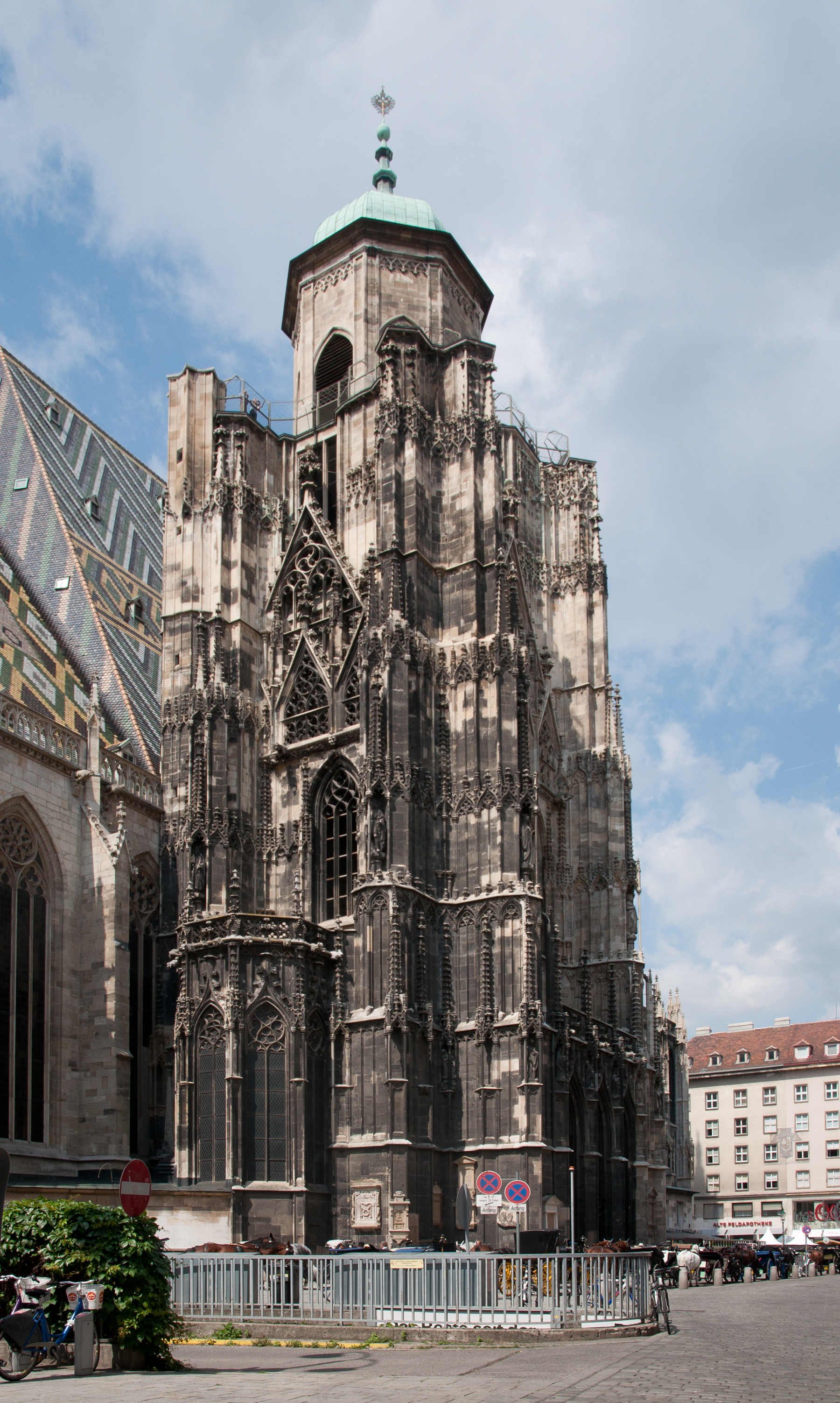 The north tower of St. Stephen's Cathedral, Vienna.